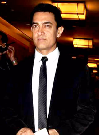 Aamir Khan at CNN IBN Heroes Awards